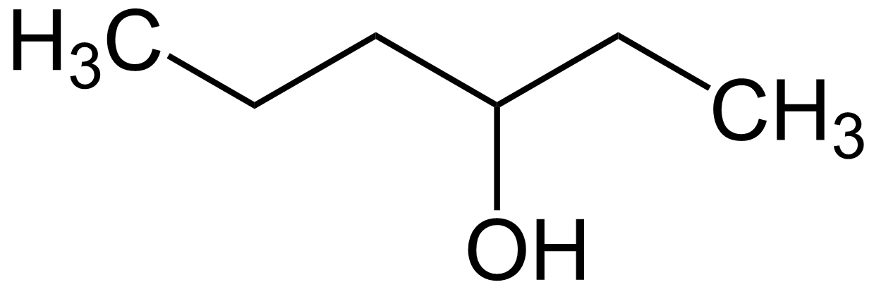 Structural formula of 3-hexanol (hexan-3-ol